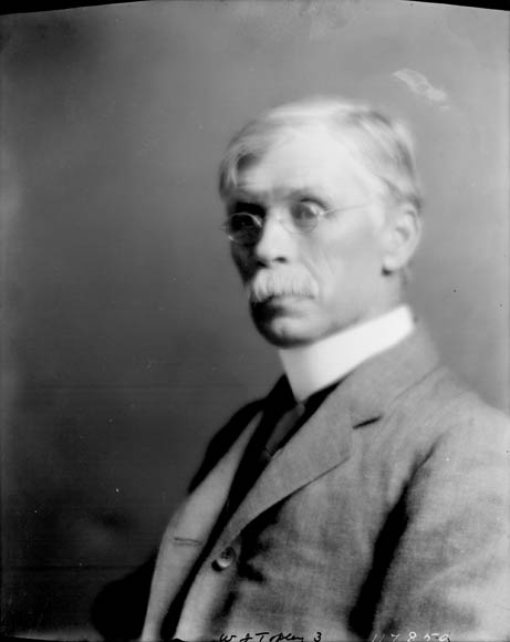 Topley, W.J. Mr. (Aug. 28, 1908)